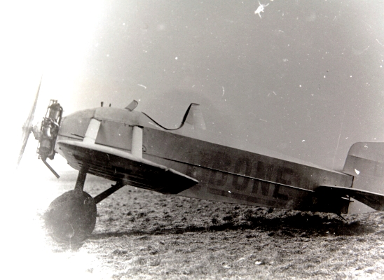 Avia BH-10 sportsplane.